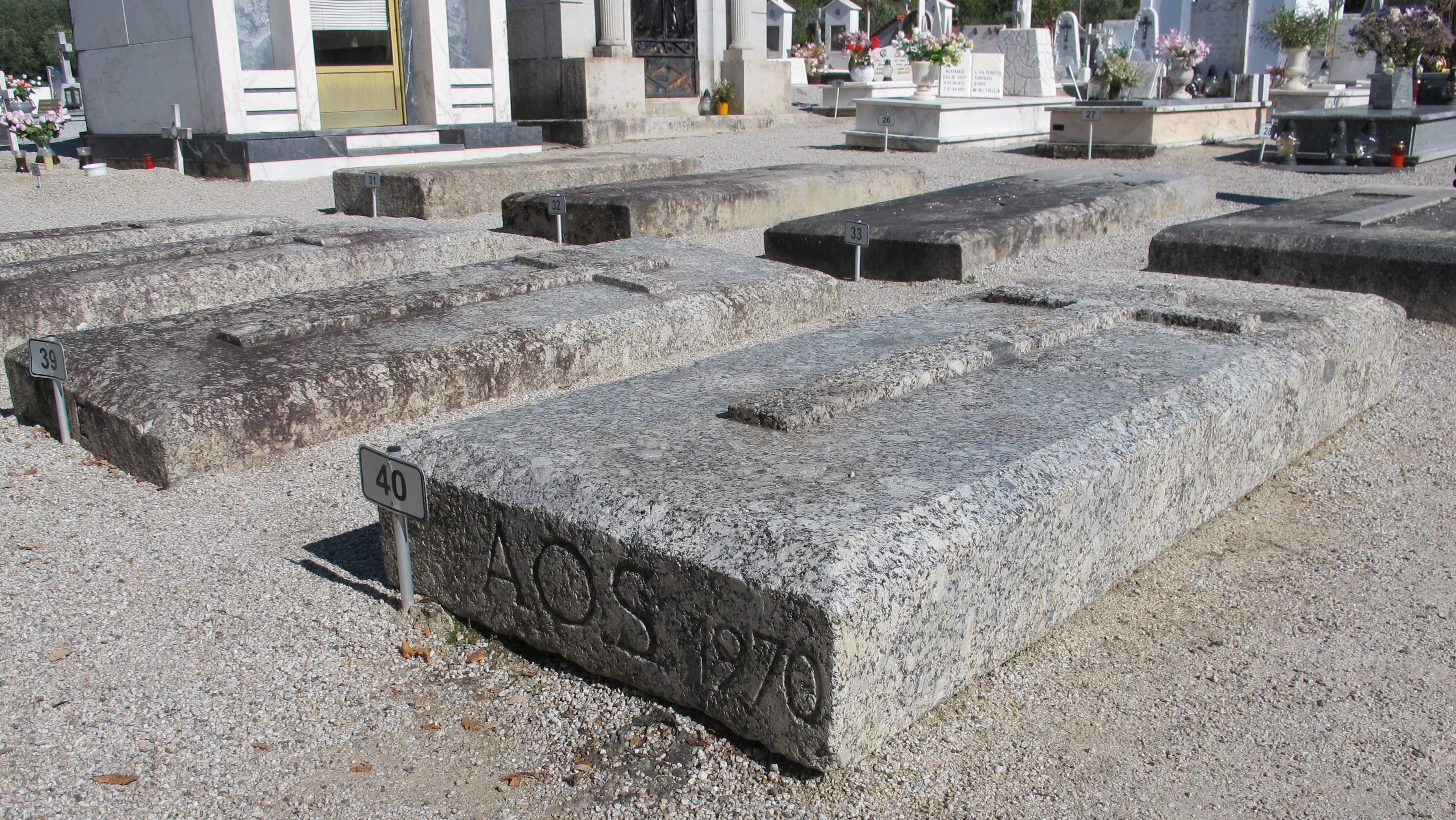 The gravestone of António de Oliveira Salazar, in the Vimieiro cemetery, according to his wishes simply indicated with his initials AOS.